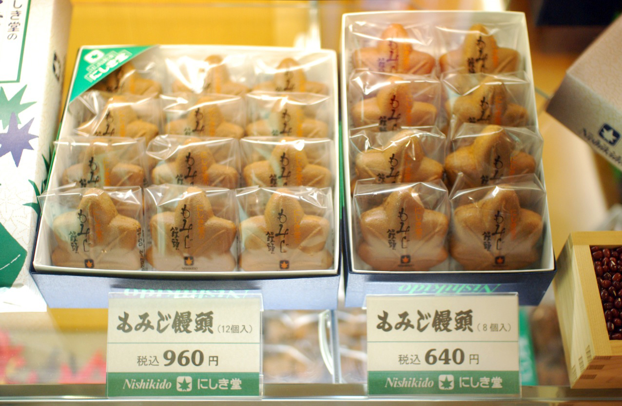 Momiji manju (maple leaf shaped waffles) of Nishikido. Nikon D40x + Sigma 30mm F1.4 EX DC HSM